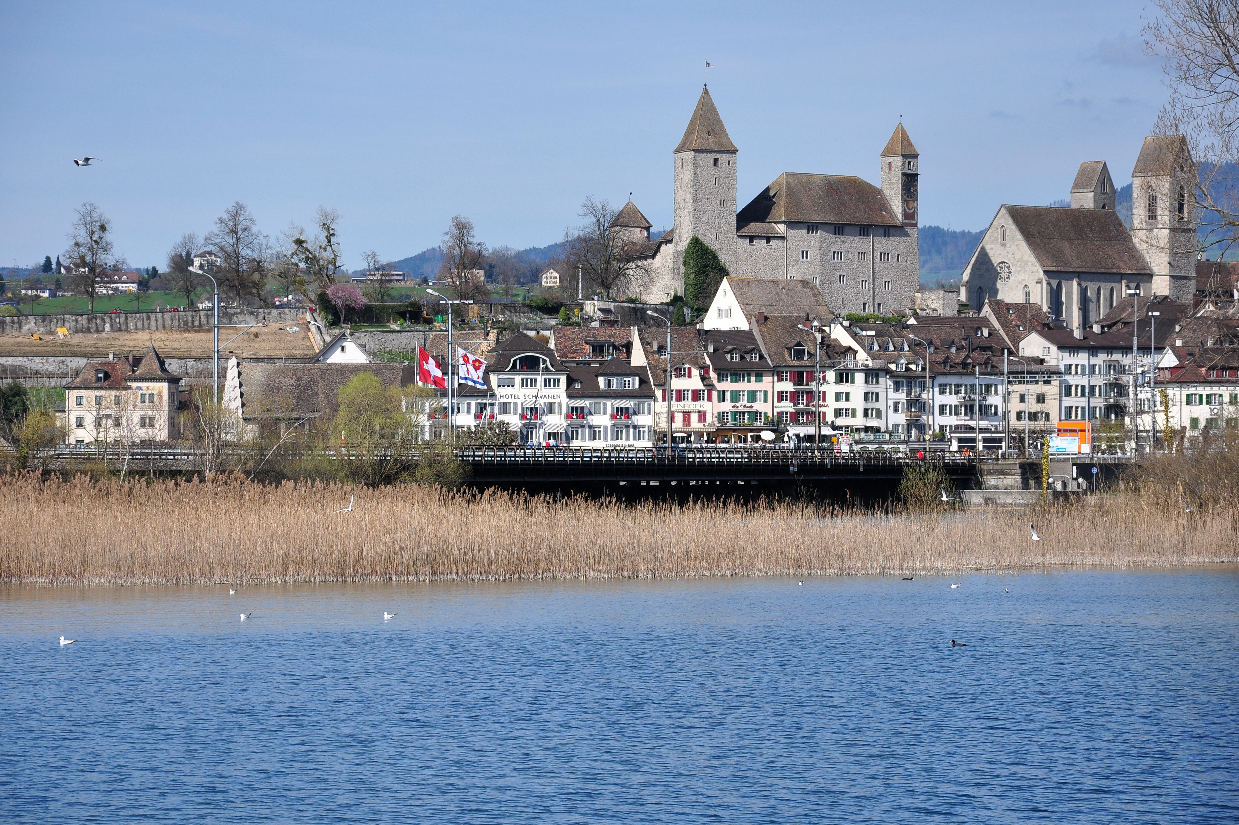 Rapperswil (Switzerland) : Rapperswil castle, Altstadt and St. John's Church, as seen from Holzbrücke crossing Obersee (upper Lake Zurich), the so-called Seedamm area in the foreground.